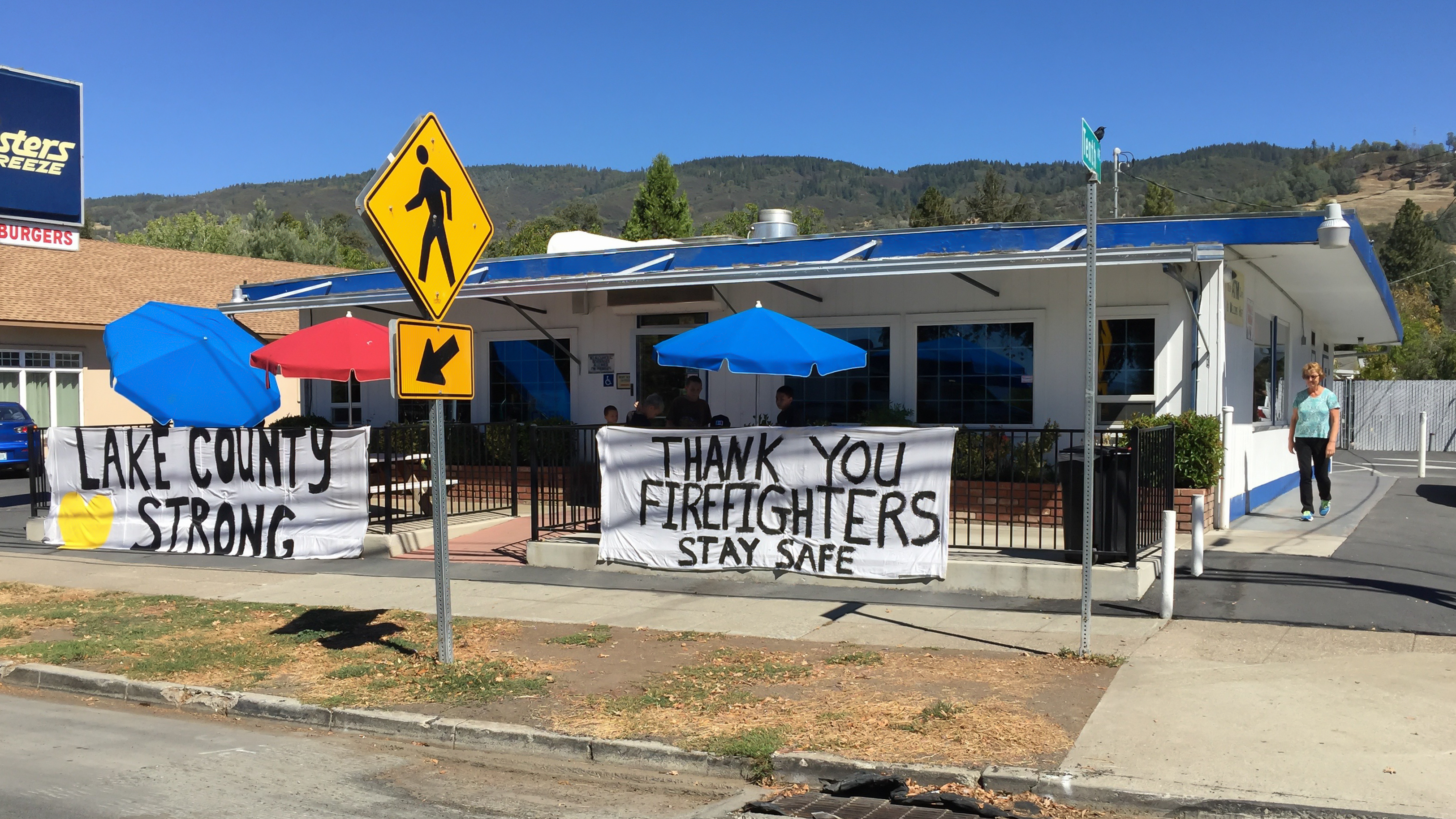 Lake County support for firefighters during the Valley Fire in Lucerne.